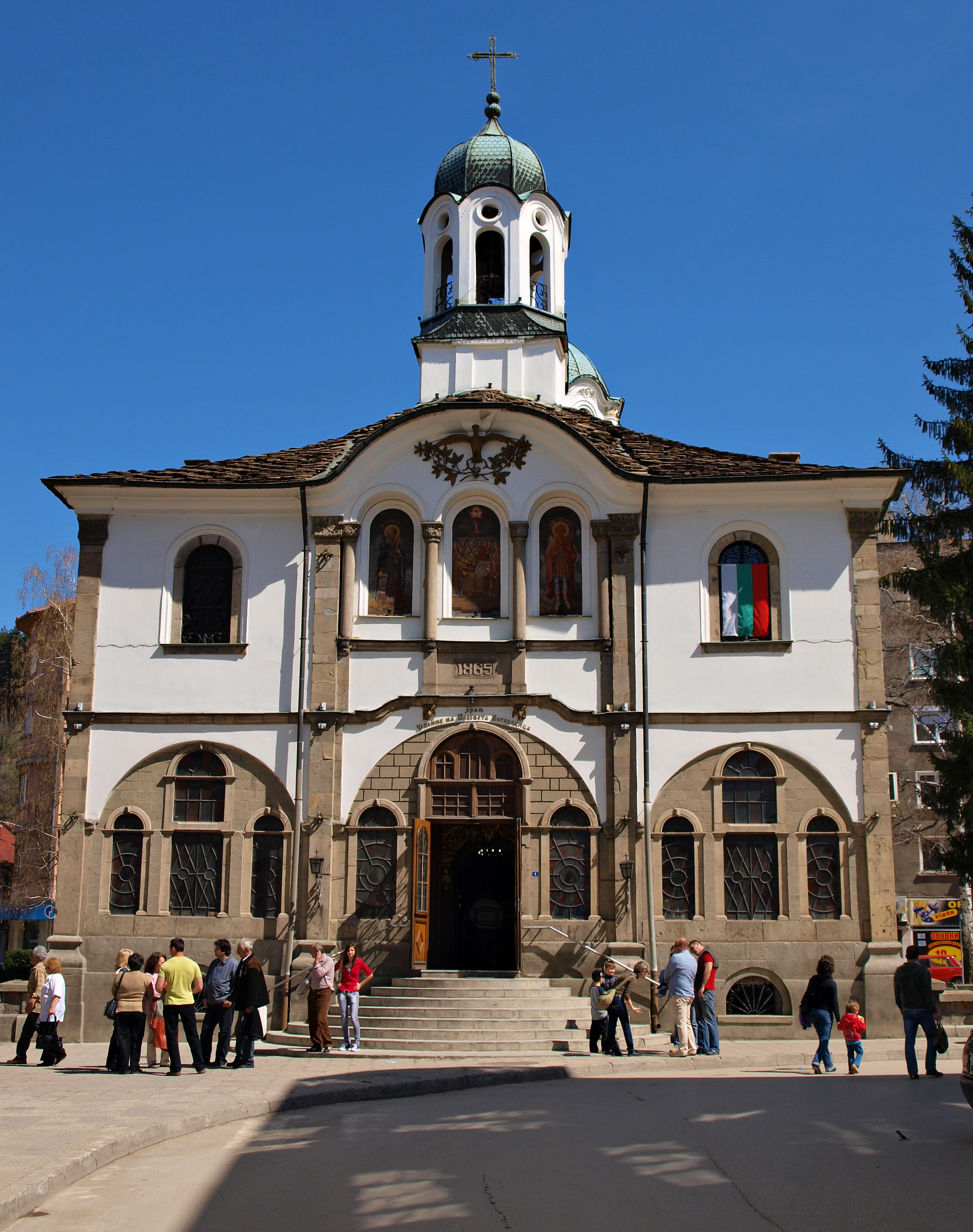 Dormition of the Most Holy Mother of God Church, Gabrovo